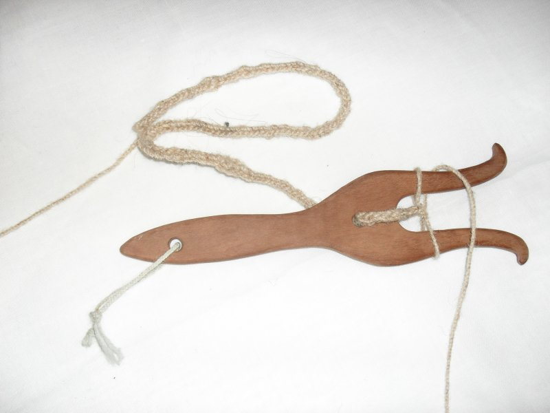 Photograph of wooden 'lyre' shaped lucet, with cord in-progress of being made.